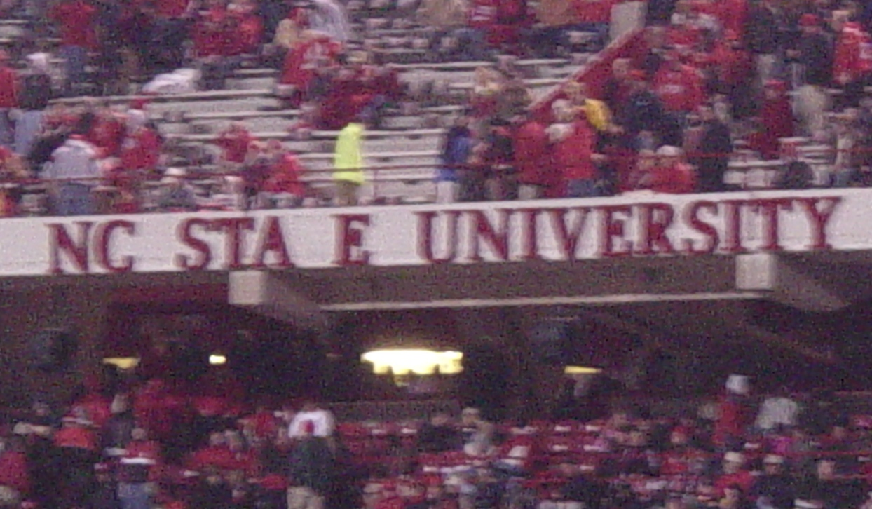 (Ethan M., self-taken, Raleigh NC, 2006)